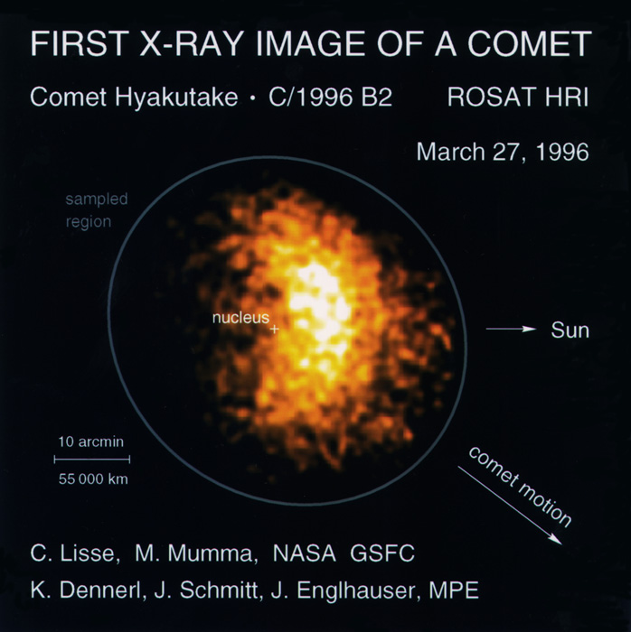 X-ray image of Comet Hyakutake, as observed by the High Resolution Imager on the ROSAT X-ray observatory. The X-rays arise primarily from a crescent-shaped region with a diameter of about 50,000 km, on the sunlit side of the comet. The directions toward the sun and of the comet motion are indicated by the arrows. No X-ray emission is detected from the nucleus, marked by the "+" sign. The ellipse represents the instrument field of view, not the extent of the X-ray emission.